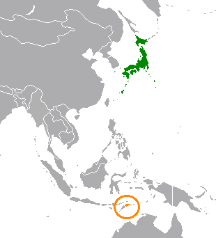 East Timor Japan locator map